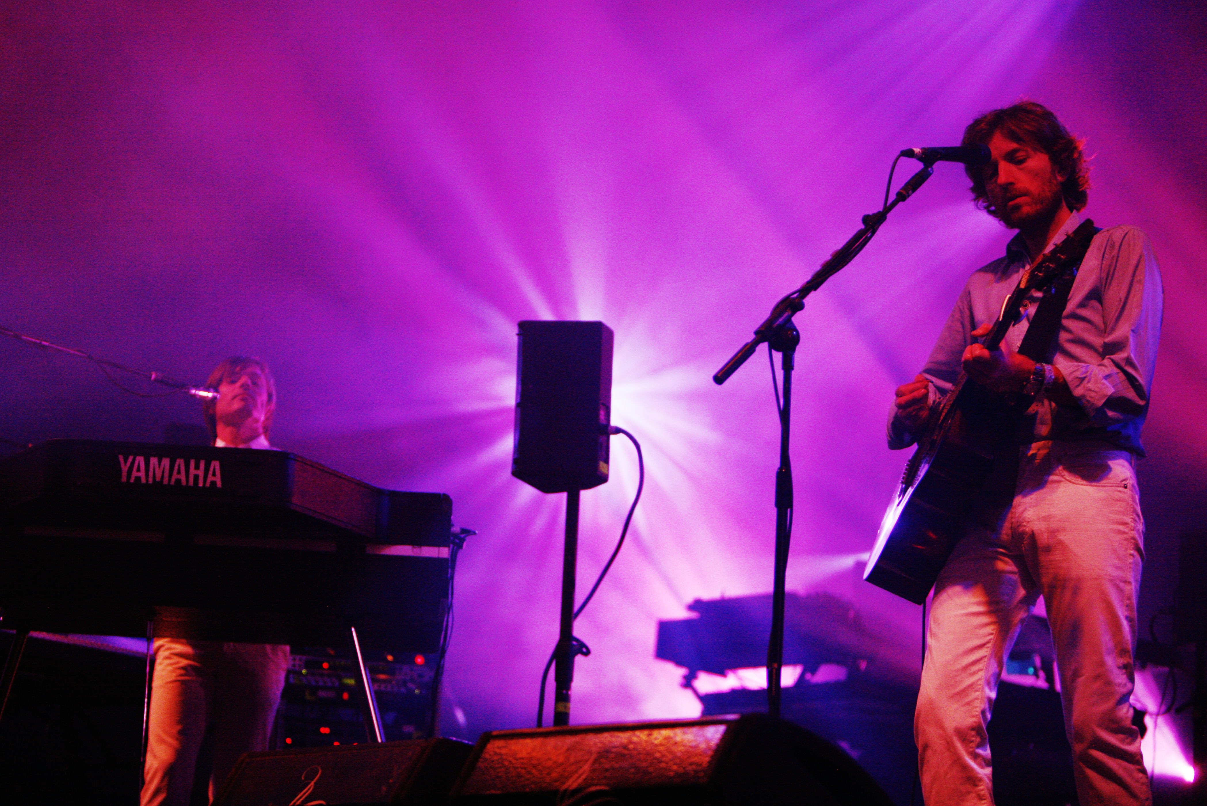 Air at the Eurockéennes of 2007